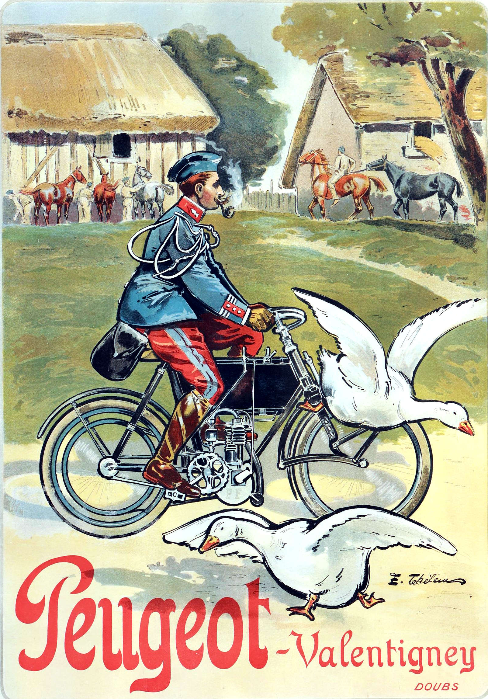 Advertising poster for "Cycles Peugeot"